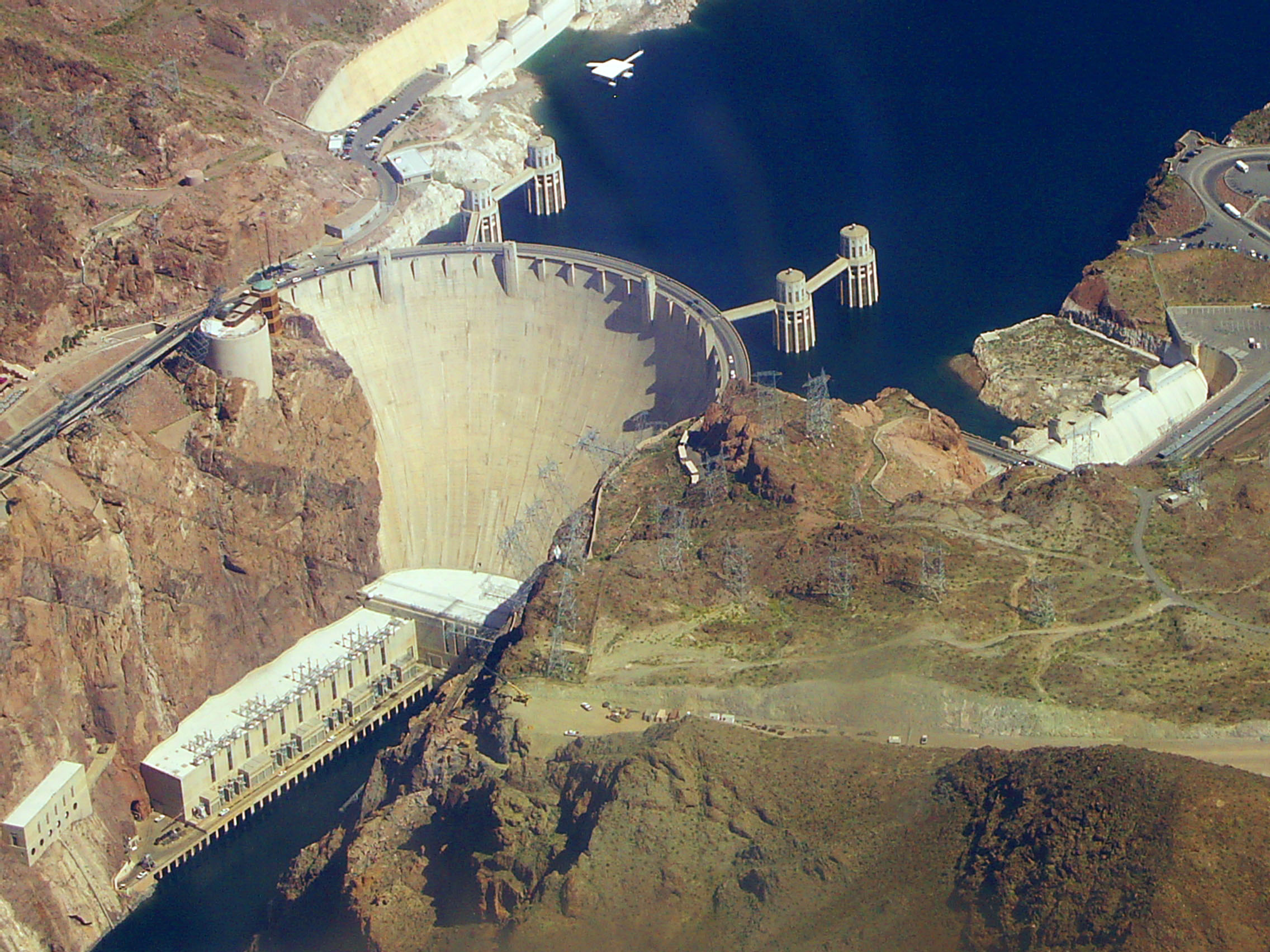 Hoover dam from plane, color balance corrected and gamma and contrast changes to restore original appearance of scene looks like coolgardie